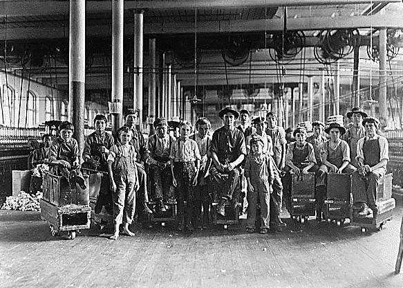 A few of the doffers and sweepers in the Mollohan Mills. Newberry, S.C., 12/03/1908. Photographed by Lewis Hine.